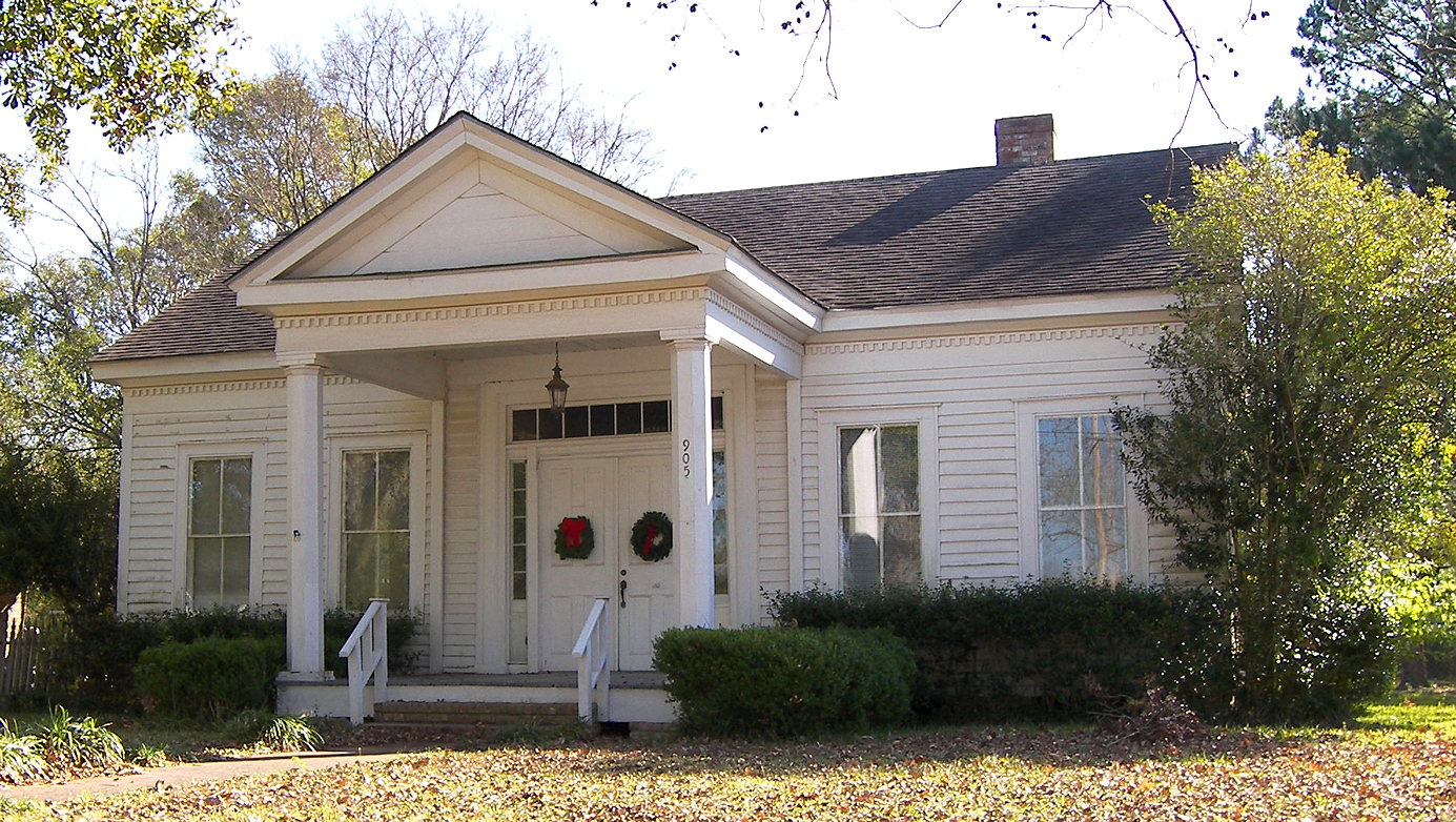 The Arnold-Simonton House in Montgomery, Texas, United States. Dr. E. J. Arnold, a prominent local physician, built this vernacular Greek Revival style house in 1845. The house was added to the National Register of Historic Places on December 11, 1979. The house was moved from this location to the Fernland Historical Park in Montgomery after I took this photo.